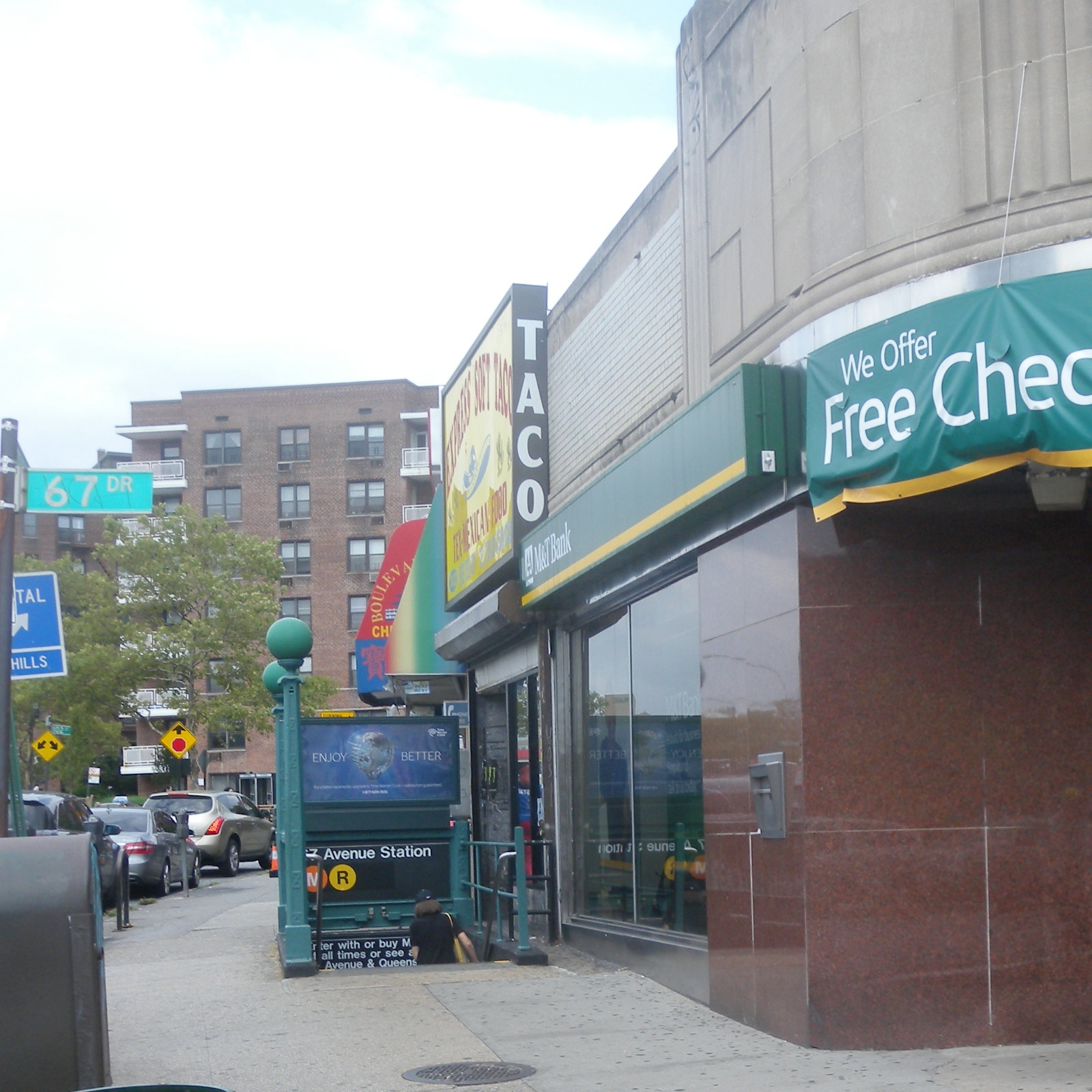 Looking northwest at subway entrance on a mostly cloudy day.